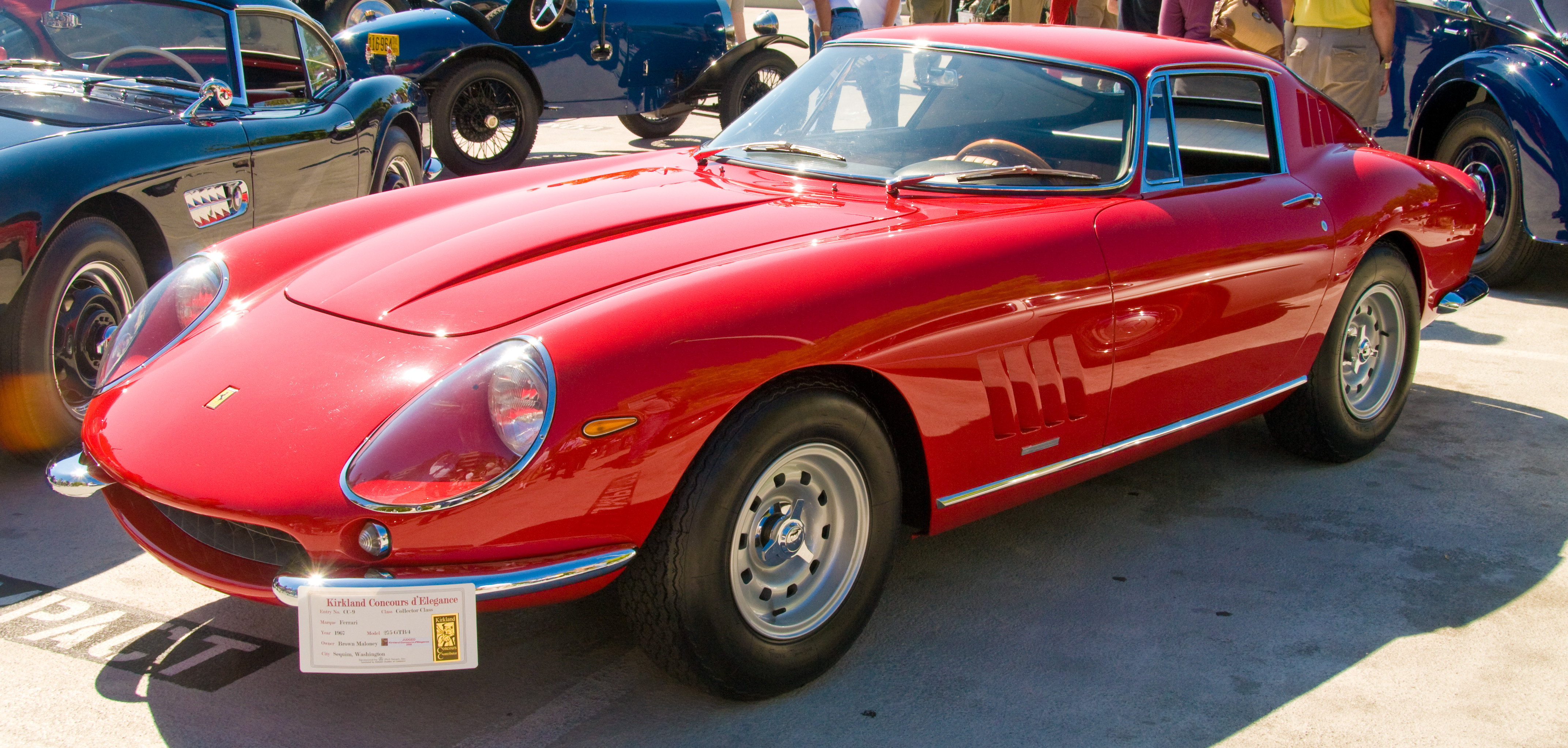 Makes me weak in the knees.